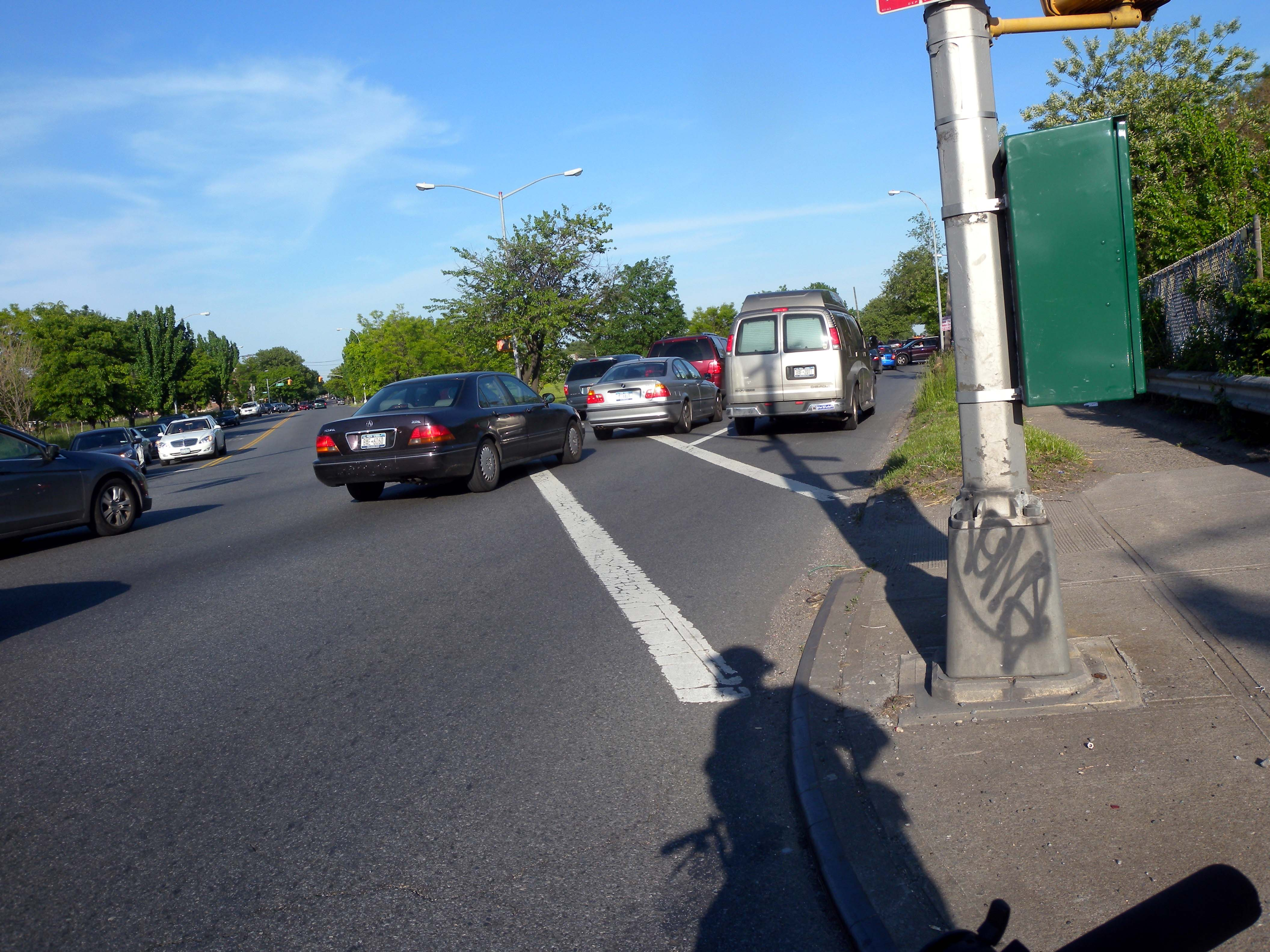 Wikiphotographer inadvertently casts shadow eastward into pic of Sutter Avenue and Conduit Avenue late on a sunny afternoon.